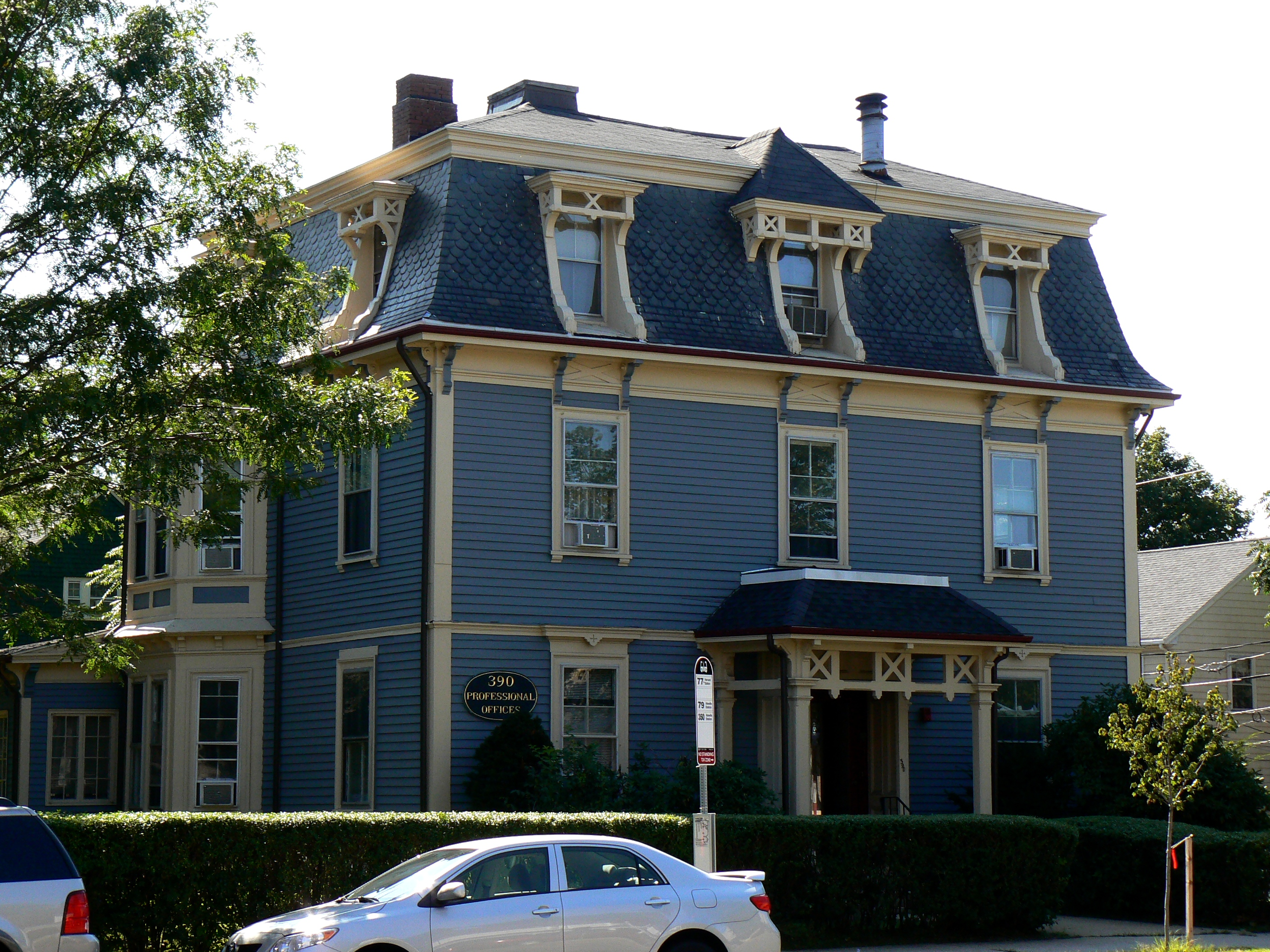 A photo of the William Proctor House, a historic property at 390 Mass. Ave. in Arlington, MA.